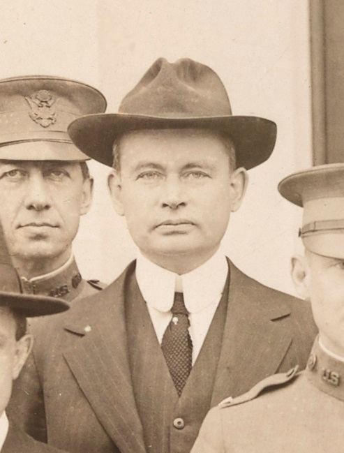 Thomas Winthrop Streeter while vice president of the American International Corporation with a government board in 1919. Lt. Col. R.H. Montgomery in the back.